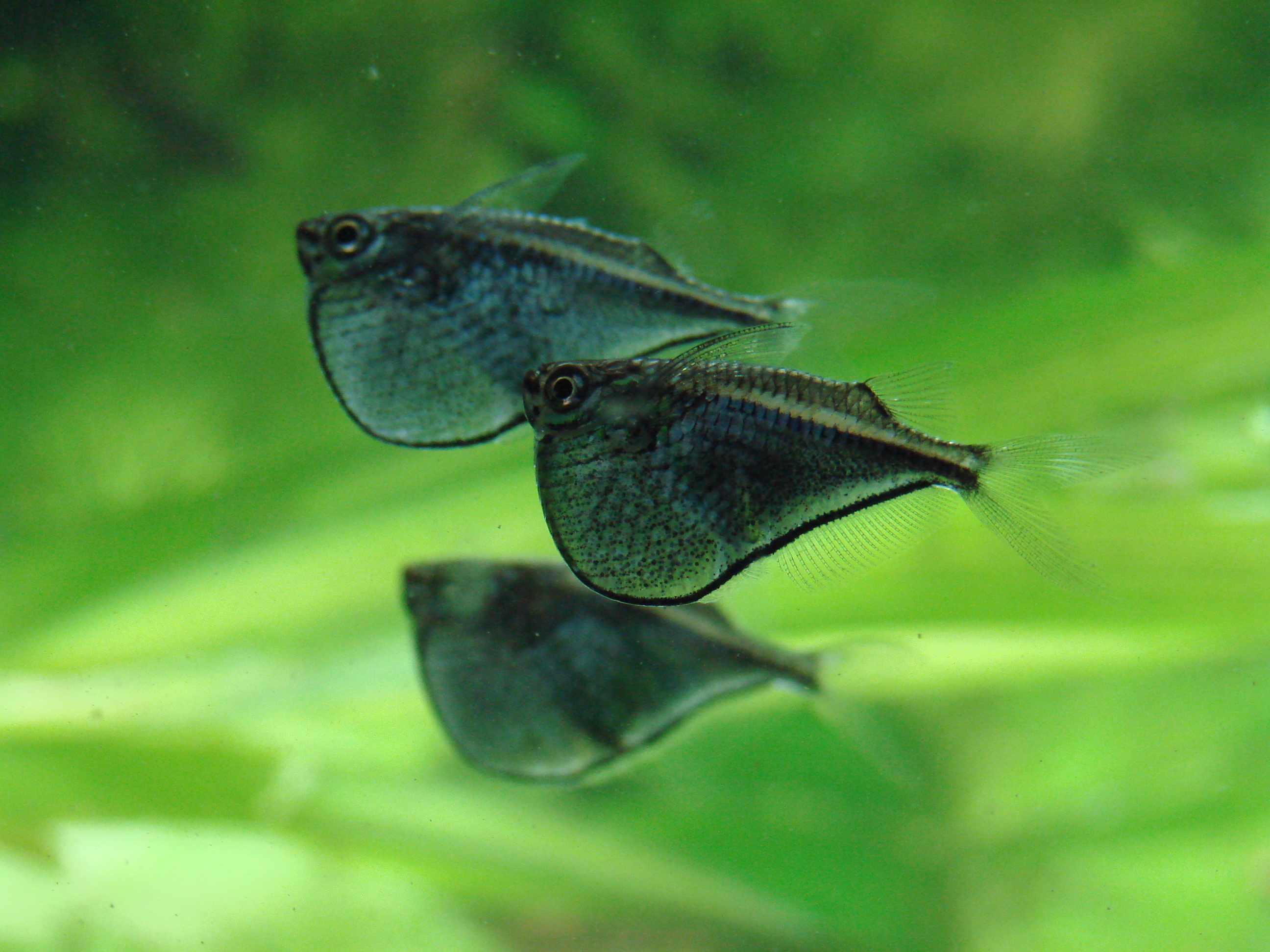 Picture taken in the zoo of Wrocław (Poland): Thoracocharax securis (De Filippi, 1853)